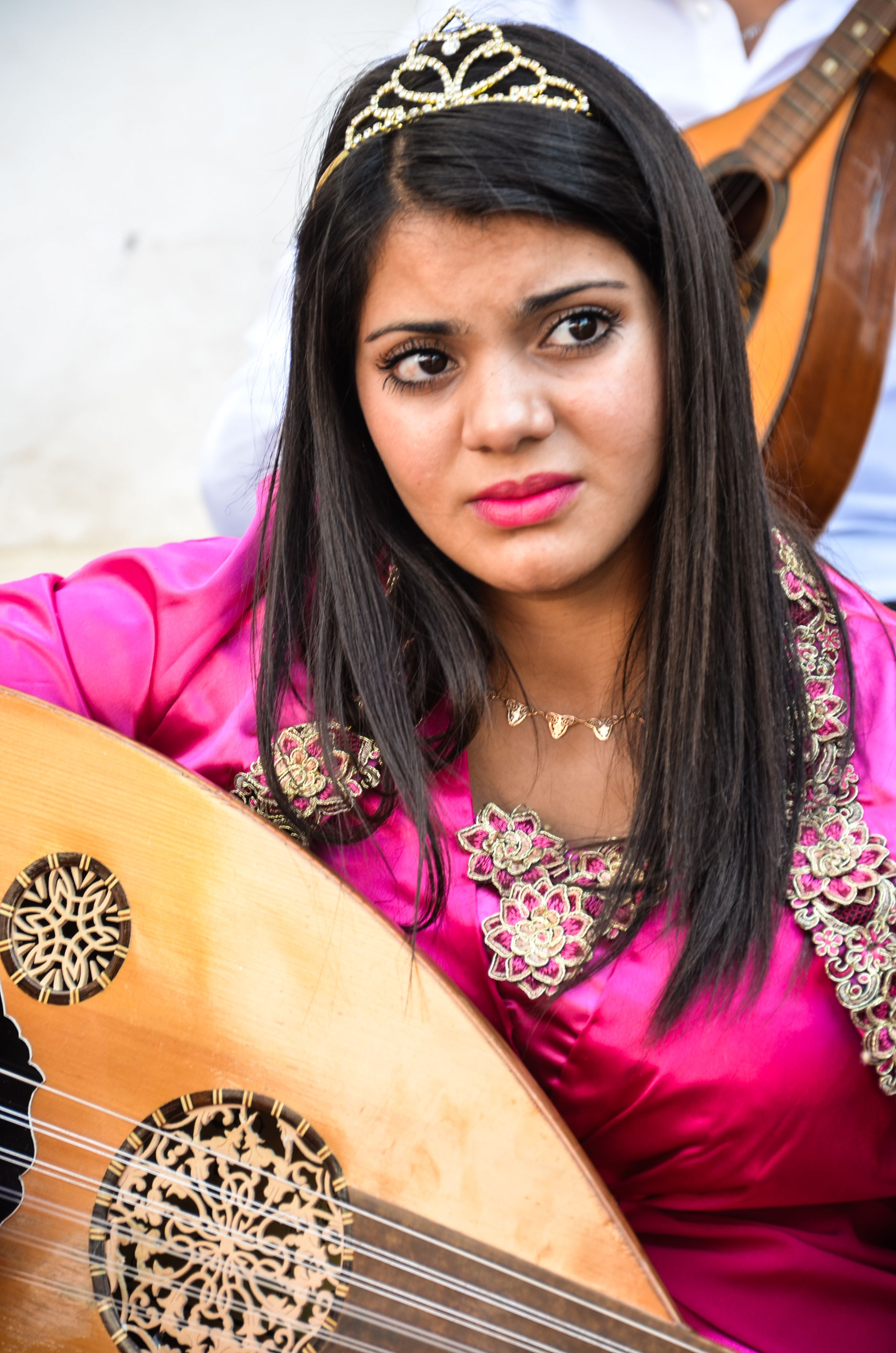 Musician of andalusian music, in Algeria This is an image from Algeria